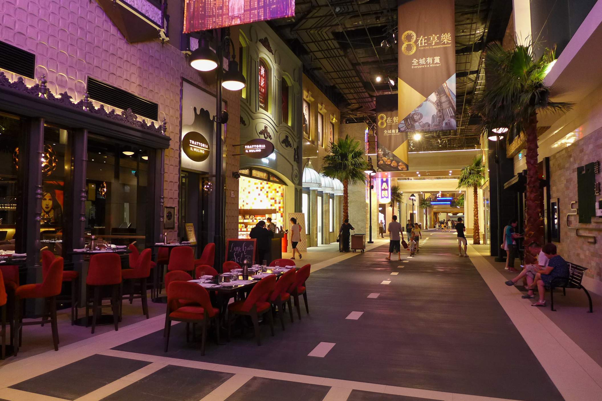 Studio City Macau Times Square Macau